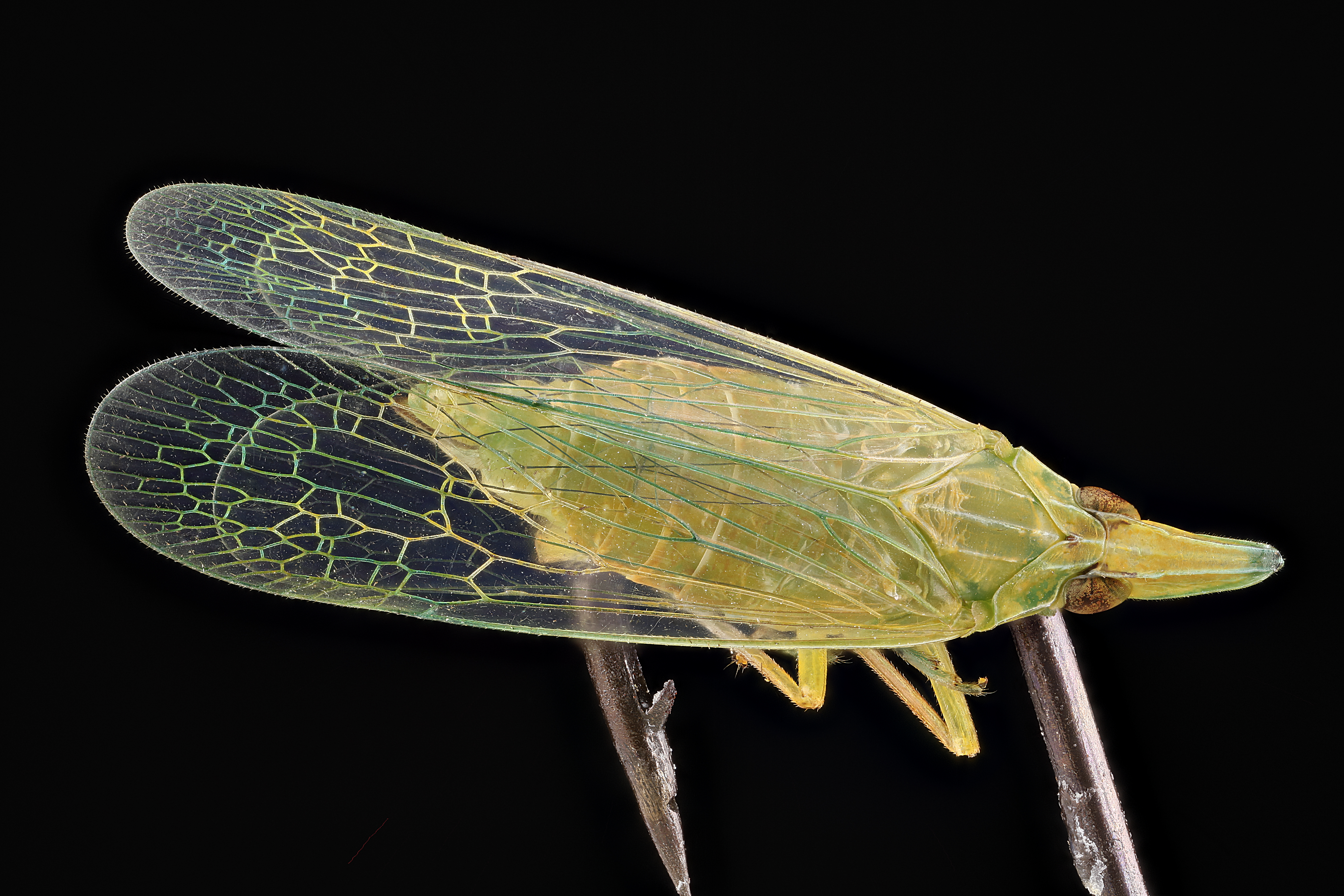 Rhynchomitra species, Upper Marlboro, Maryland, August 2012, Planthopper